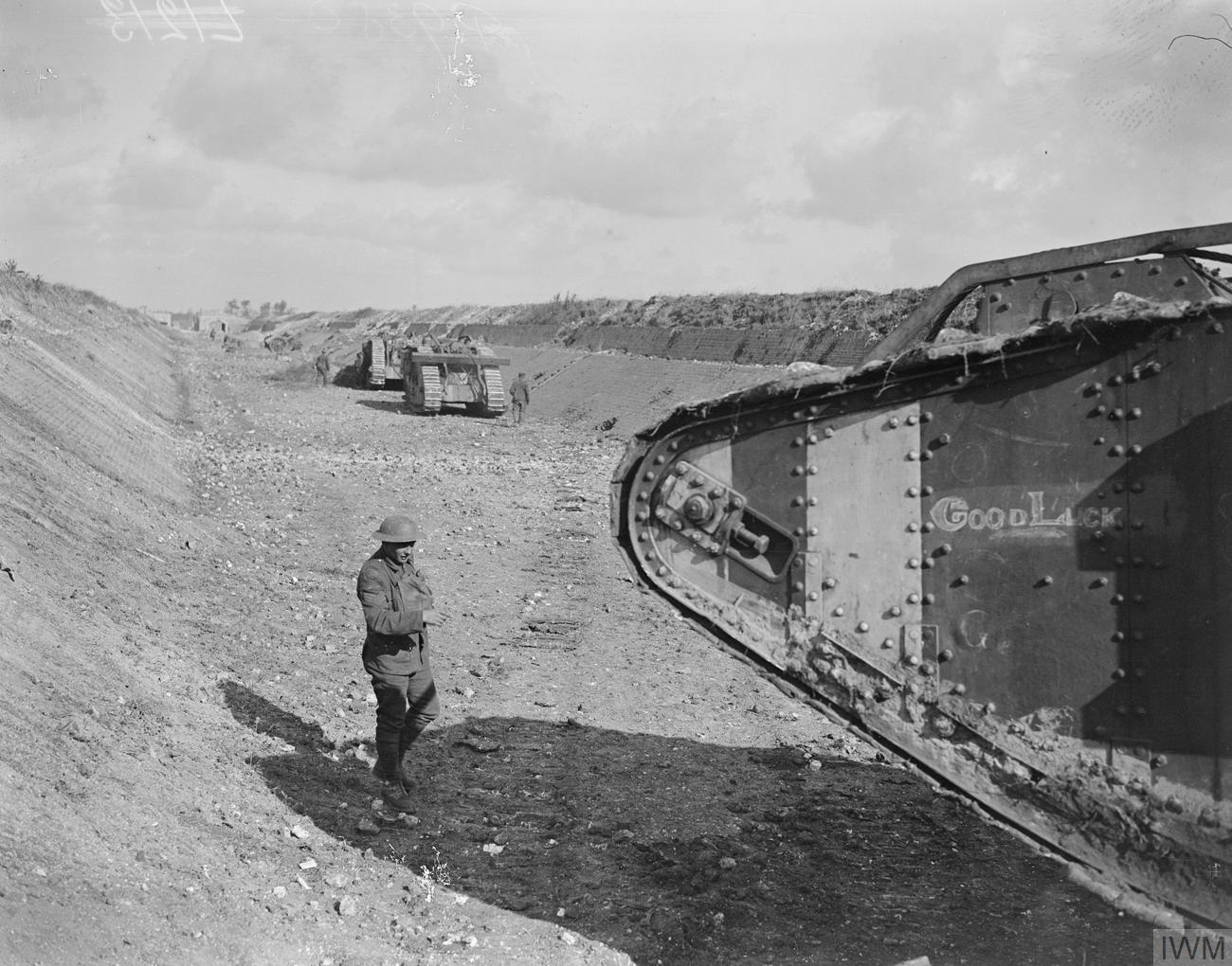 The Hundred Days Offensive, August-november 1918 Battle of the Canal du Nord. Tanks of A Company, 7th Battalion, parking in the Canal du Nord after capturing Bourlon Village, 27th September 1918.